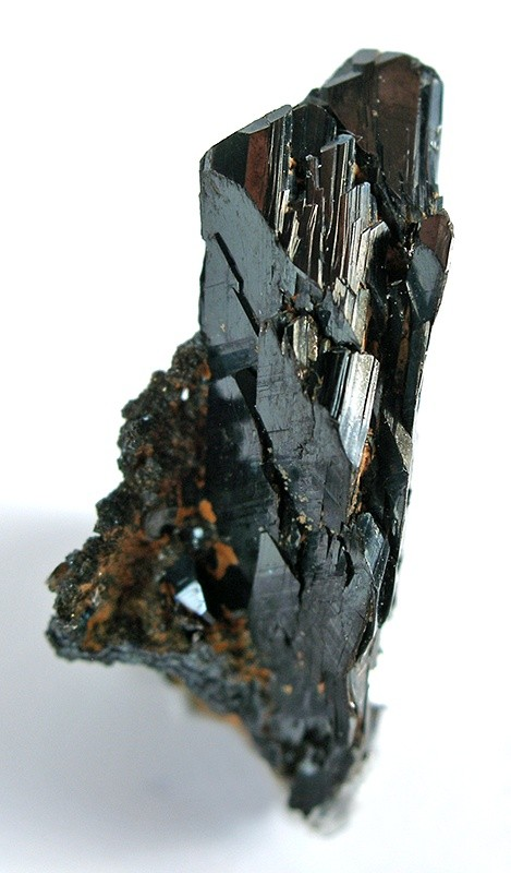 Schneiderhöhnite Locality: Tsumeb Mine (Tsumcorp Mine), Tsumeb, Otjikoto (Oshikoto) Region, Namibia (Locality at ) Size: 2.3 x 1.1 x 1.0 cm. A MAJOR Tsumeb rarity, Schneiderhöhnite is usually seen for sale as little 2-5mm crystals on ugly ore matrix. However, there was one pocket (in the 1970s?), which produced these huge crystals and set the standard for the species for all time to come, and this is the largest single crystal of that find that I have seen for sale. It is, simply, a world class thumbnail and both for species and aesthetics. TYPE LOCALITY and the only locality for superb larger crystals of this species. A bit of matrix is attached with other microcrystallized mineralization, possibly other species. Lastly, I should point out that this crystal is complete ALL around, 360 degrees.